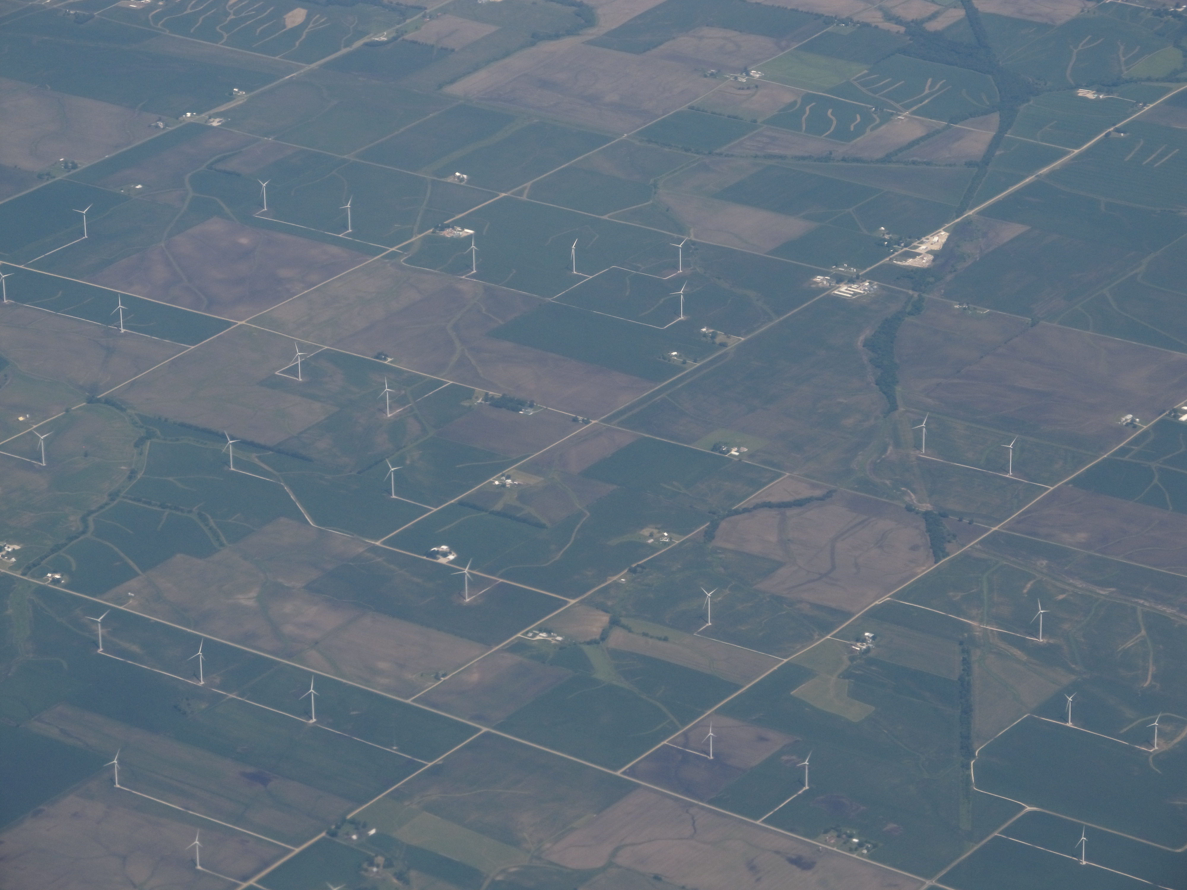 Kewanee is a city in Henry County, Illinois, United States. The population was 12,916 at the 2010 census, down from 12,944 at the 2000 census. Kewanee was well known in the steam industry for fire-tube boilers. The Kewanee Boiler Corporation manufactured and sold thousands of boilers throughout the United States, Mexico, and Canada and the world for well over one hundred years. However, the company failed in 2002 and was forced to go out of business.